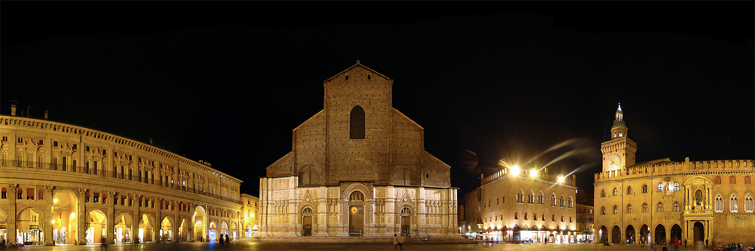 Piazza Maggiore, Bologna, Emilia-Romagna, Italy. South side of square, featuring from left to right: Palazzo dei Banchi, San Petronio Basilica, Palazzo dei Notai, Palazzo d'Accursio (now the Town Hall).